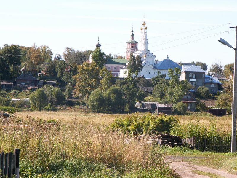 Vyazma - Ioanno-Predtechensky Monastery.